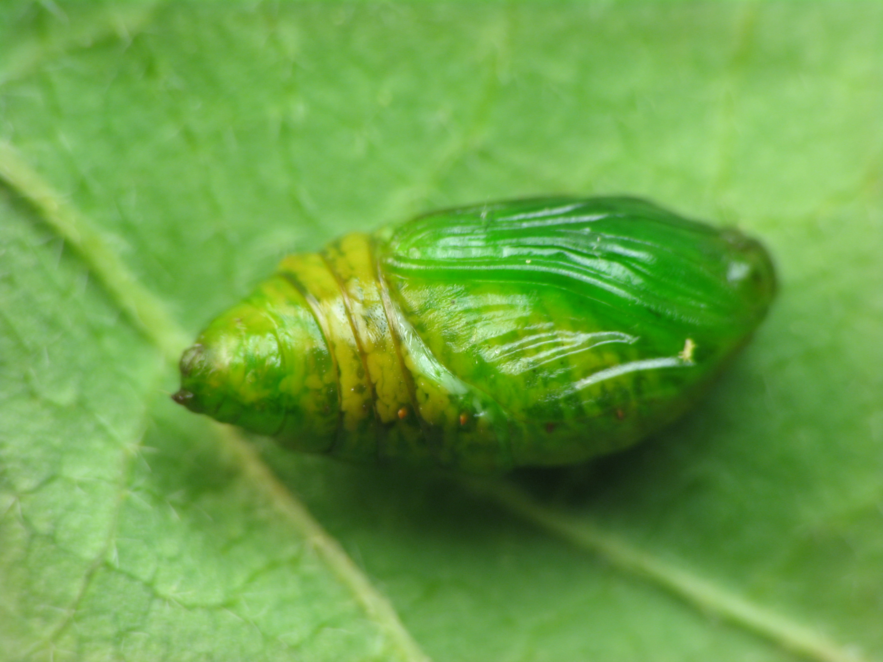 Pupa of geometrid moth Alsophila pometaria (Fall Cankerworm - Hodges#6258) on arrowwood. Size: 8 mm. Pennypack Restoration Trust, Montgomery County, Pennsylvania, USA.